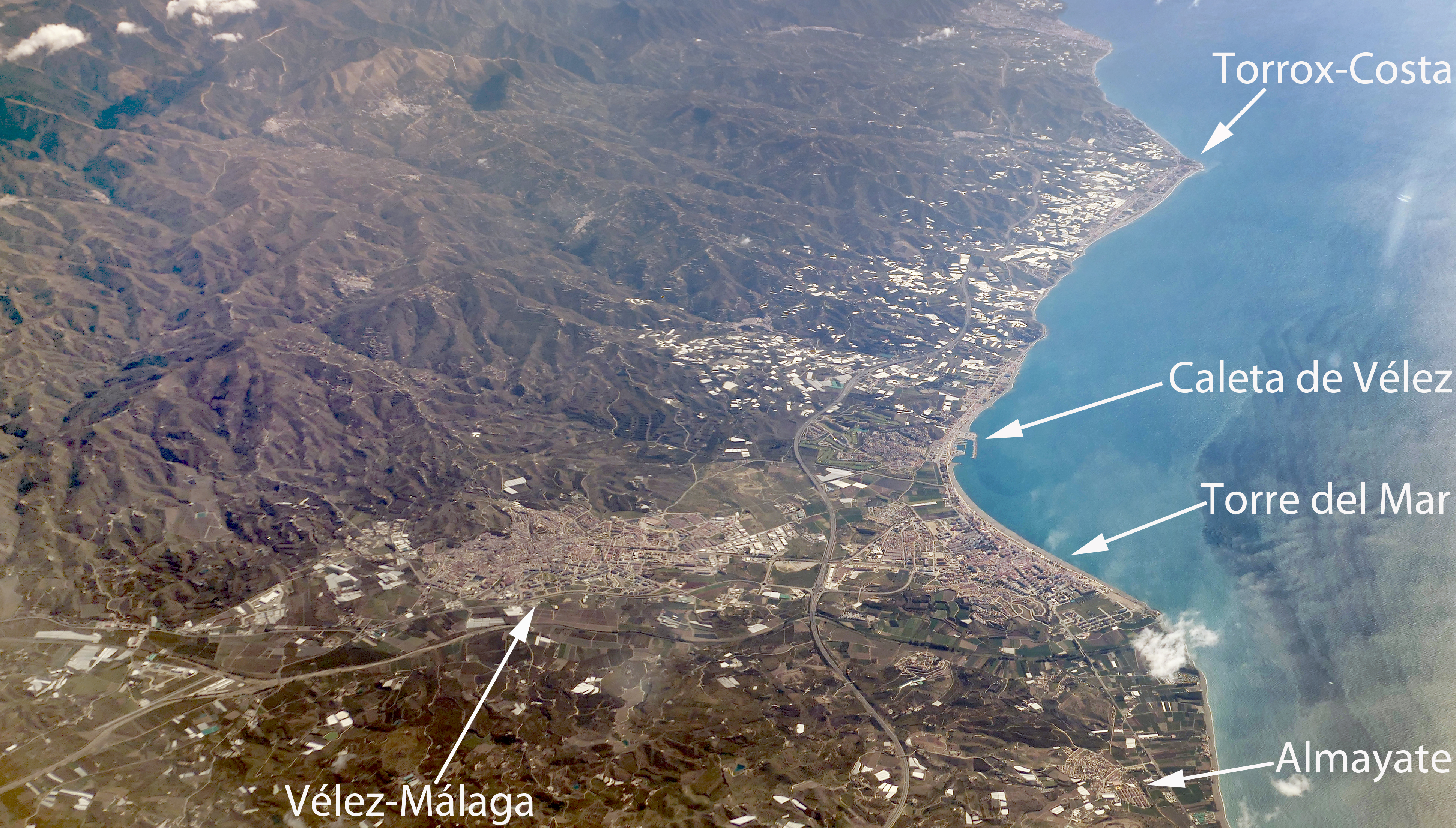 An aerial view Torre del Mar and neighbouring towns in Andalusia, Spain.